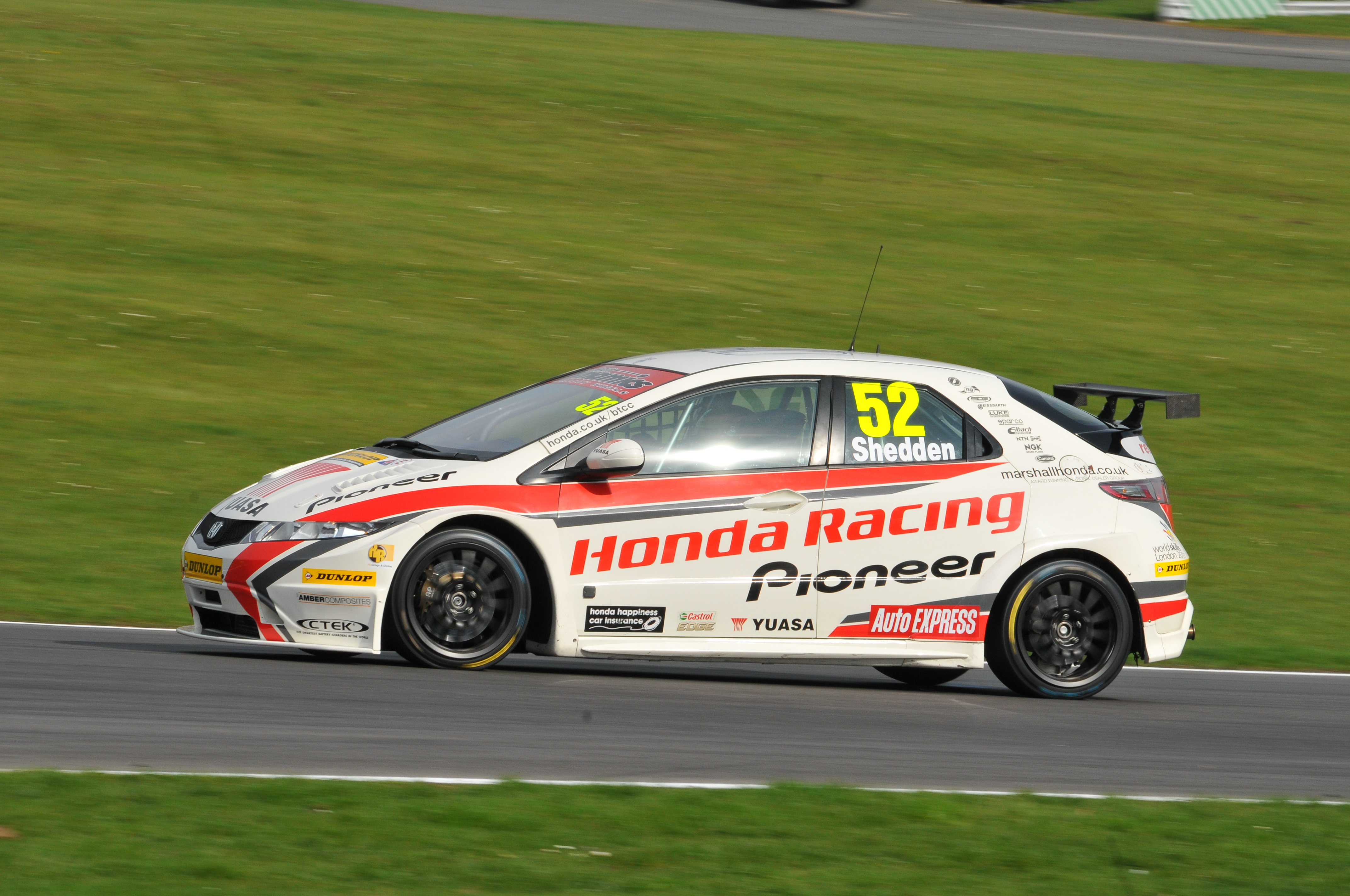 Gordon Shedden in the British Touring Car Championship at Brands Hatch in 2011. Original description from flickr: BTCC Brands Hatch April 2011